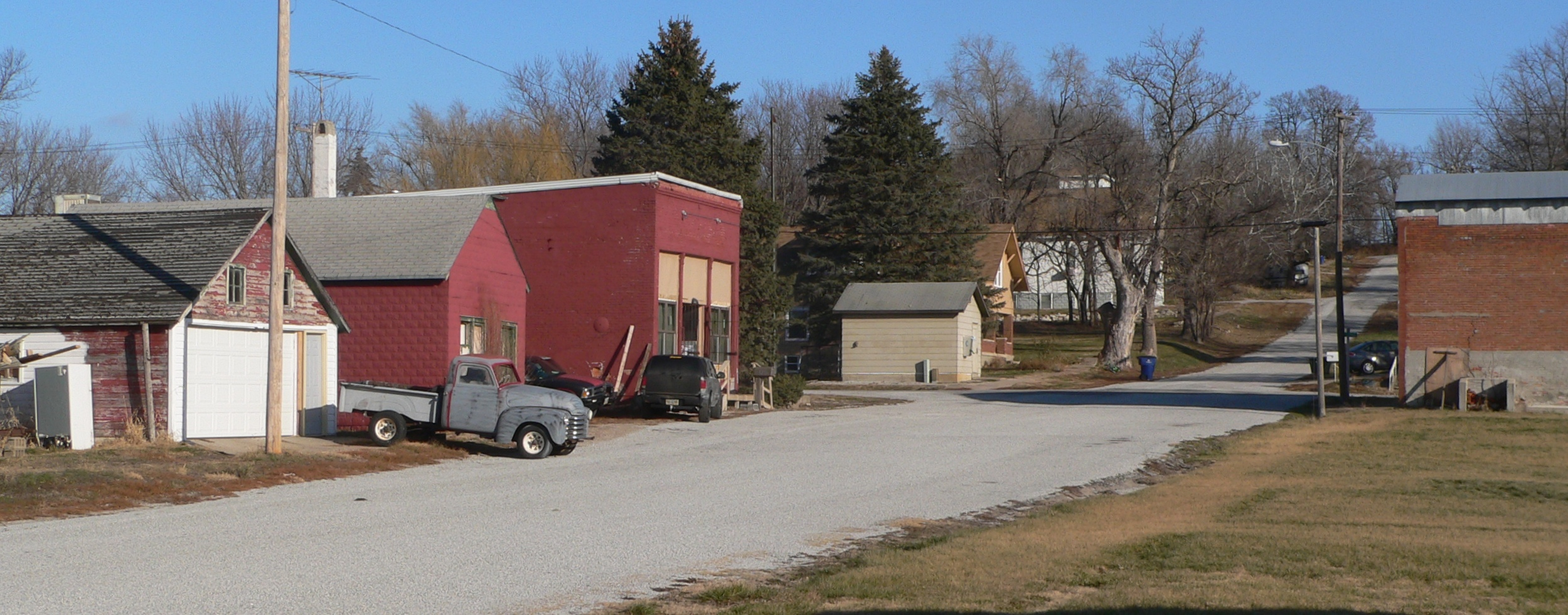 Downtown Julian, Nebraska: north side of West Street. Camera is facing northeast.